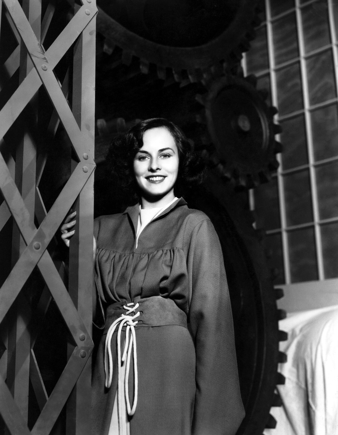 Paulette Goddard in a publicity still of the film Modern Times.